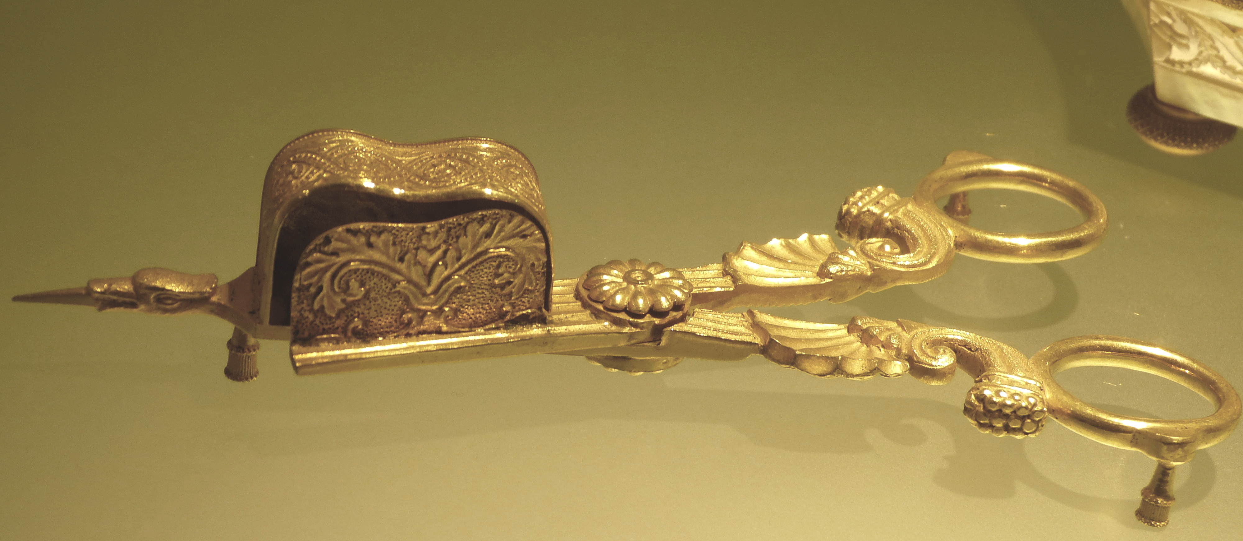 Vienna ( Austria ). Wien Museum Karlspatz: Candlewick trimmer ( 1825 )